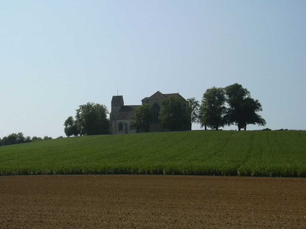 The "Doue Mount" in Doue, Seine-et-Marne, France, with the church at its top.